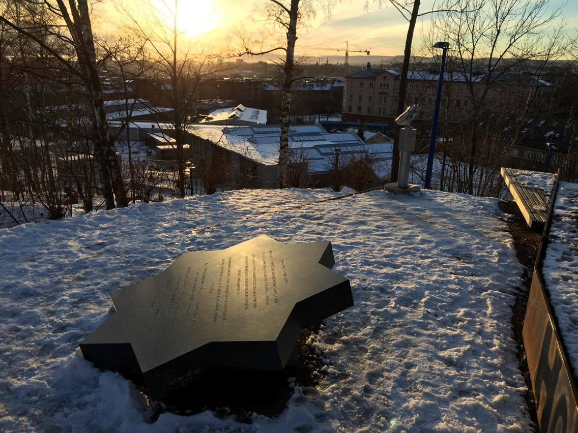 Updated photo of Sukkertoppen minnepark.